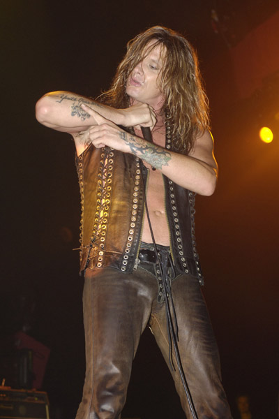 Sebastian Bach identifies his elbow